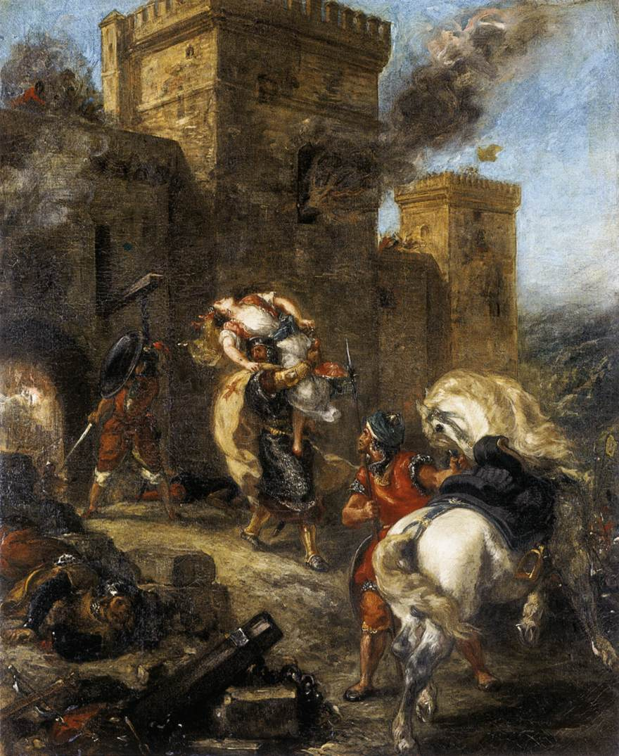 A scene from Ivanhoe by Sir Walter Scott